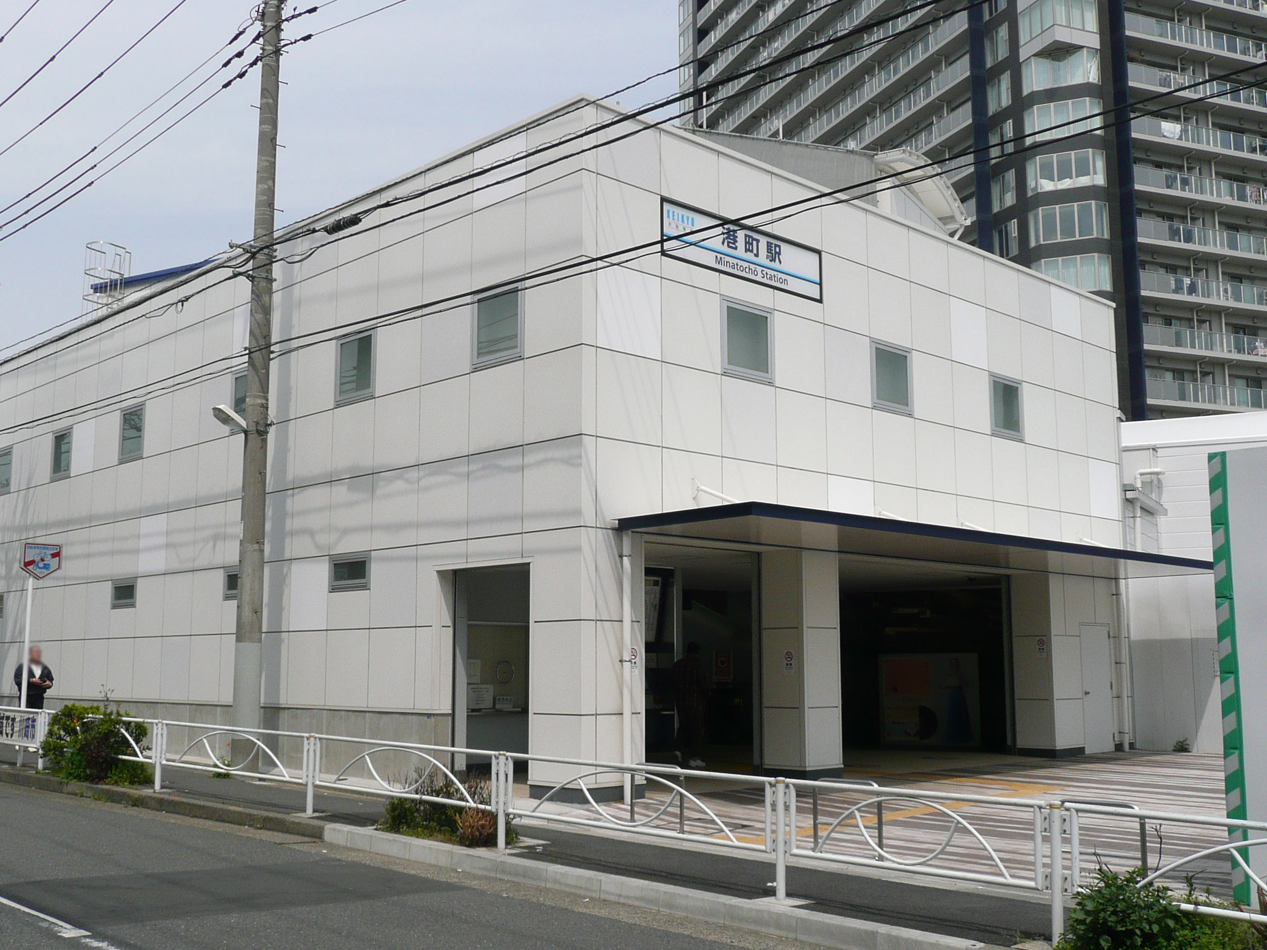 South Entrance of Minatochō Station